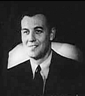 Isolated image of John King from public domain serial to identify subject